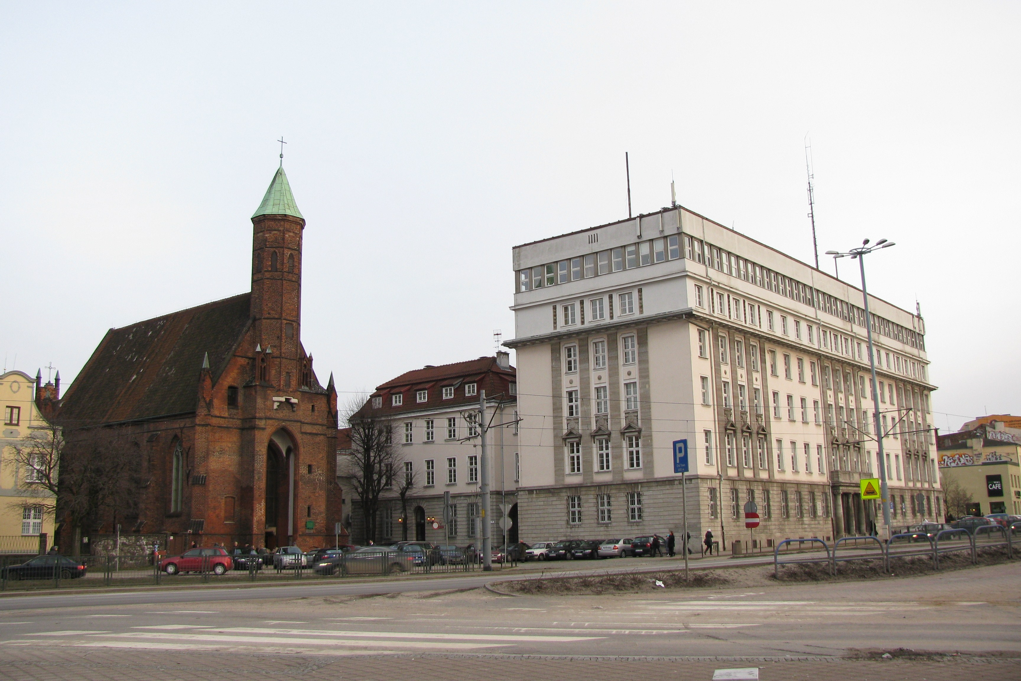 Wały Jagiellońskie Street in Gdańsk.